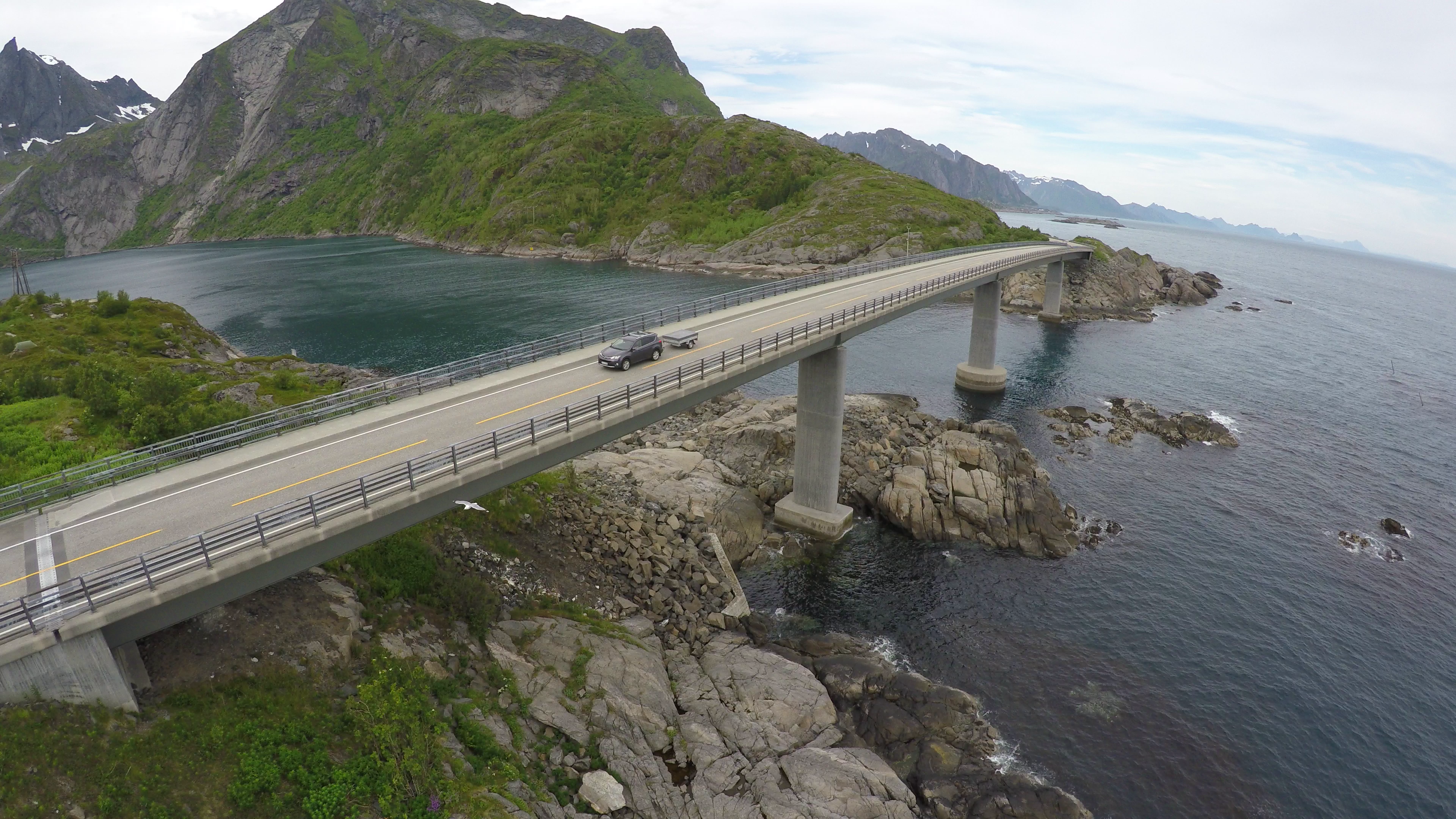 Djupfjord bridge in Moskenes, Lofoten, Norway seen in june 2016 from a drone